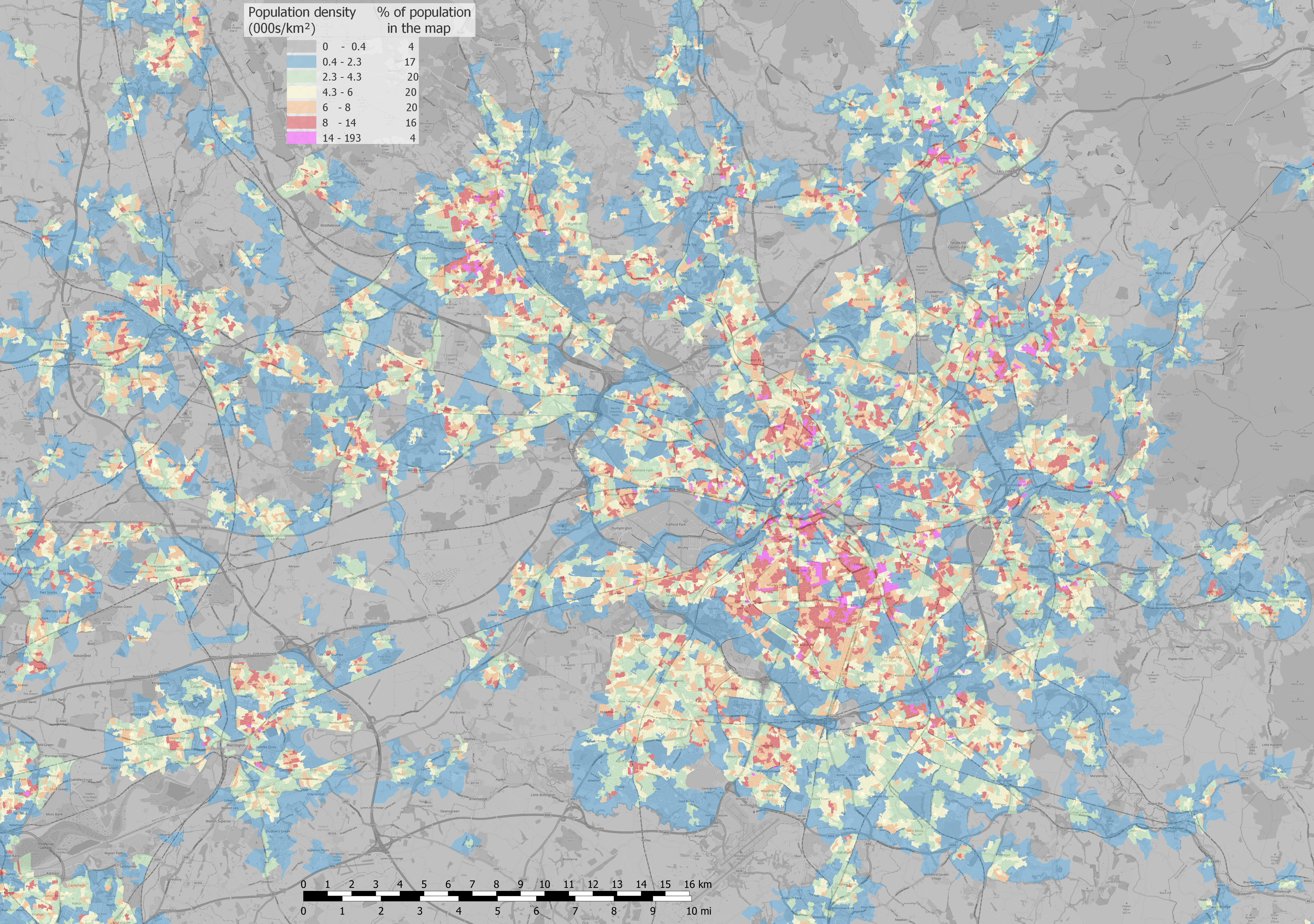 The map area was inhabited by 3.3 mln people in 2011, 2.7 mln in Greater Manchester Population density computed from 2011 Output Area (OE) data there is on 2020 map so new neighbourhoods are visible in the grey zone. Values sometimes are not representative because: sometimes a whole nonresidential area is contained in one from a few adjacent OEs. sometimes OEs encompass only building, sometimes only part of it, to keep up stiff household count limit, what gives very high density. OE boundaries are visible, especially in red and pink.